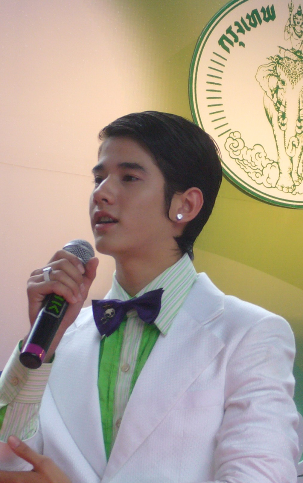 Mario Maurer in Mother day at MBK